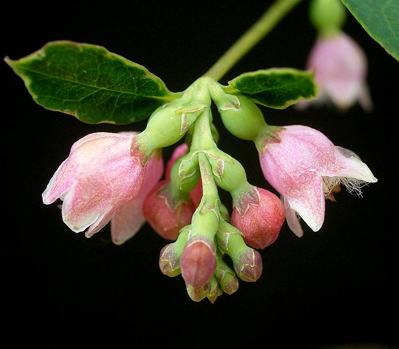 Symphoricarpos albus